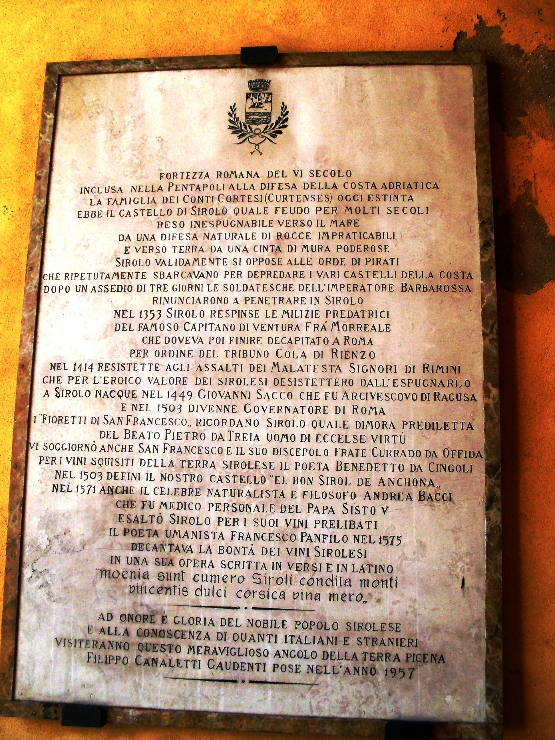 Sirolo arco targa